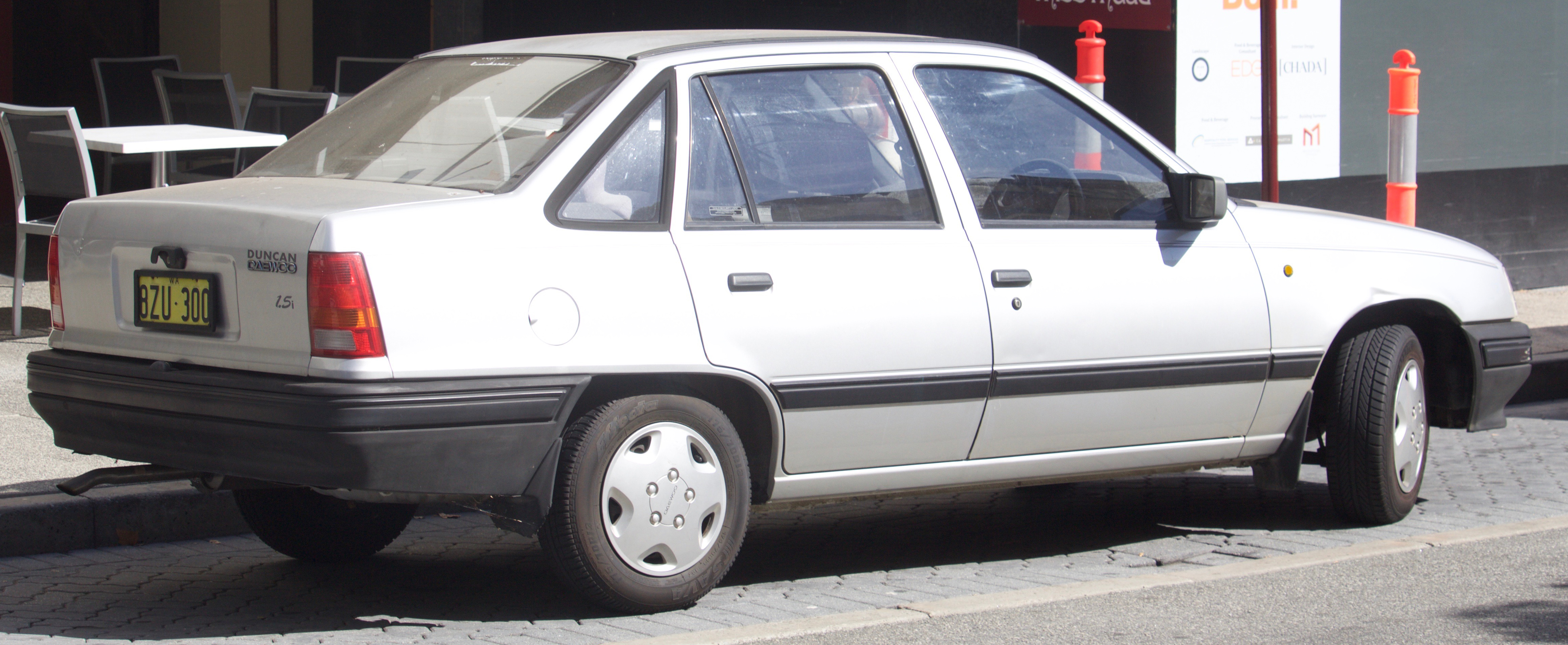 1994-1995 Daewoo 1.5i sedan. Photographed in Perth, Western Australia, Australia. Note: the indicator lenses on the side have been changed to orange to reflect factory specifications. This is also the pre-facelift as denoted by the taillight assemblages.